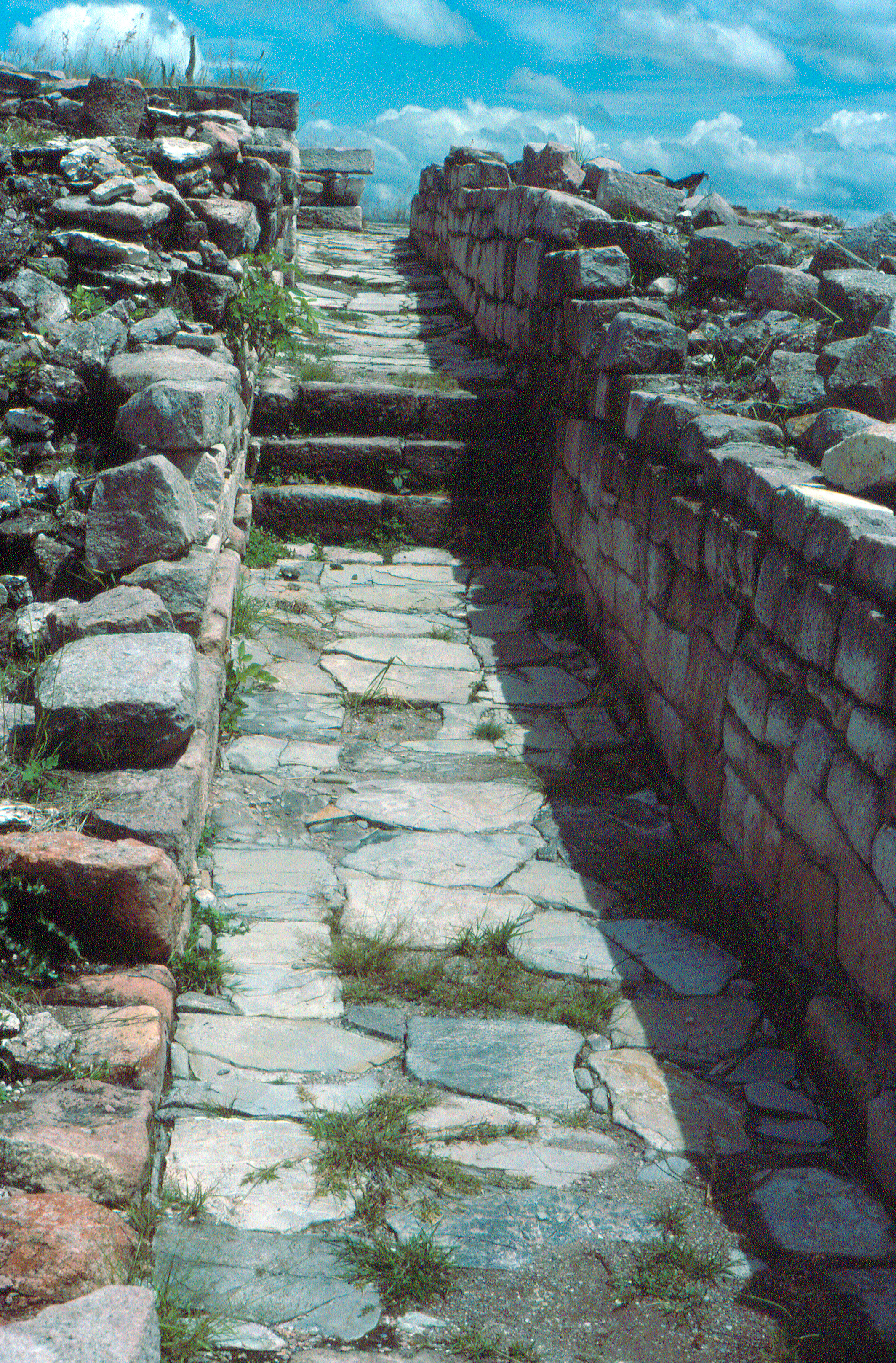 Cuetlajuchitlan, Guerrero, Mexico: road.